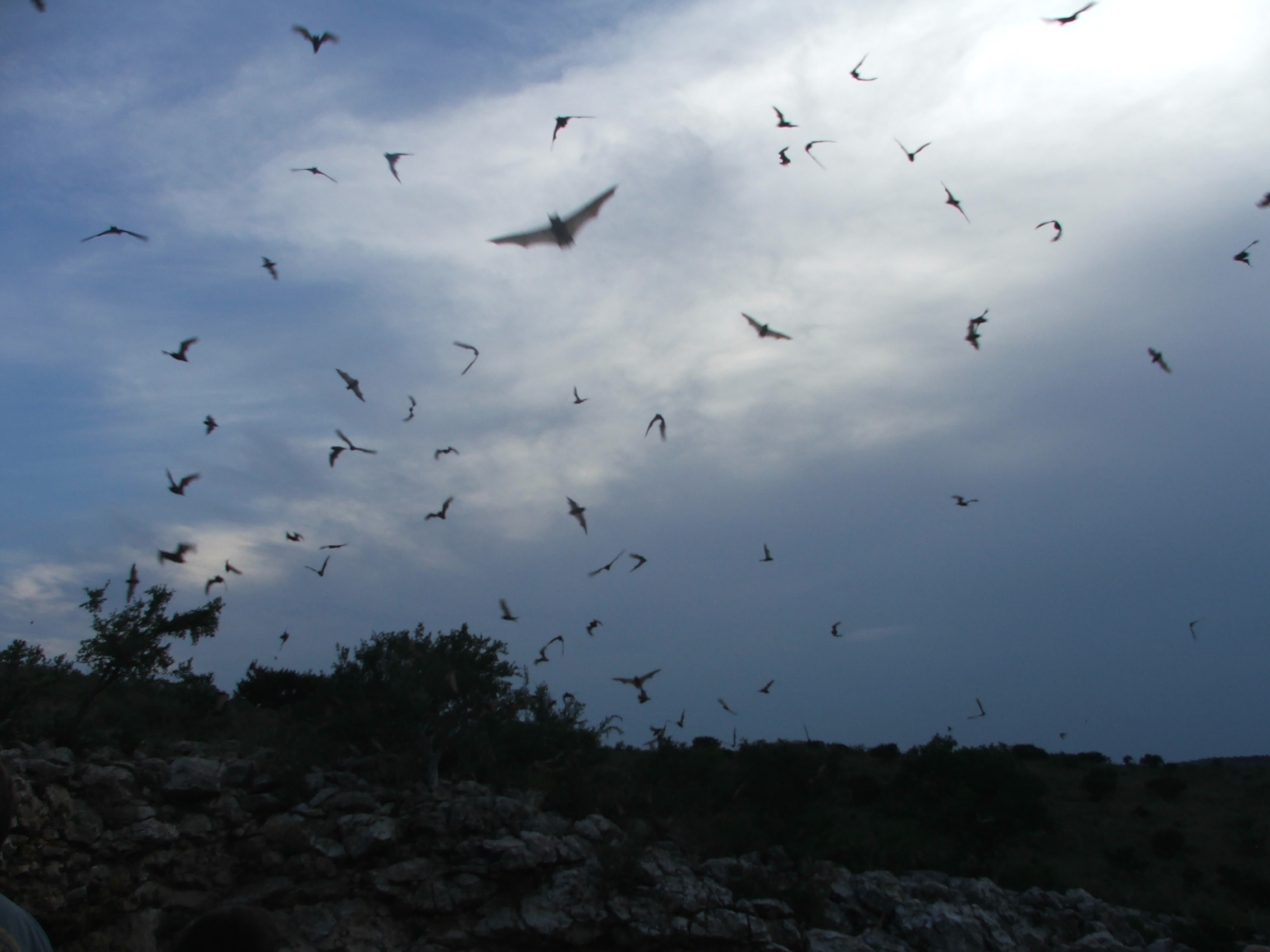 On a recent trip to Concan, TX I visited the privately held, "Frio Cave". Frio Cave is home to a whopping 10 Million Mexican Free-tailed bats. The opportunity to witness their exit from their day time slumber party was something I highly suggest. It was quite an awesome sight.